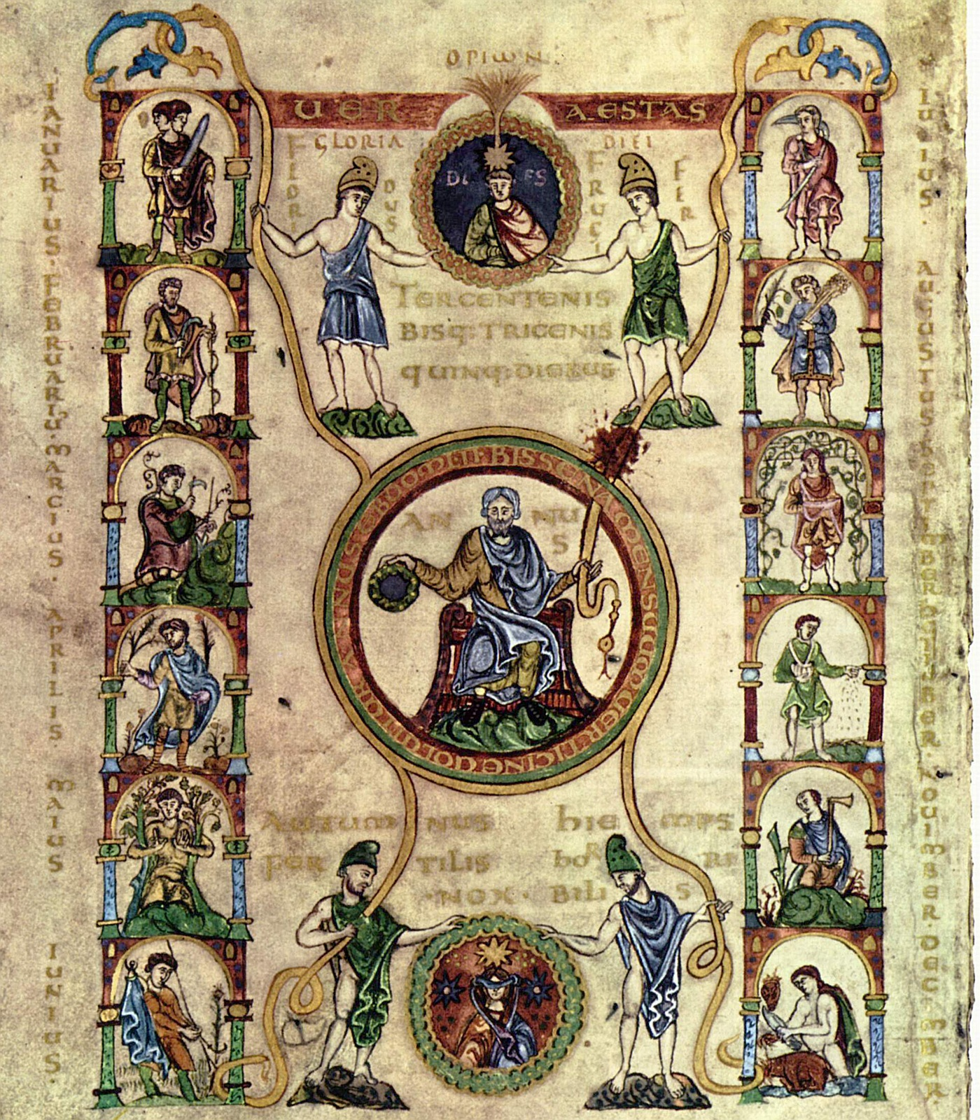 cf. source, detail, digitally enhanced